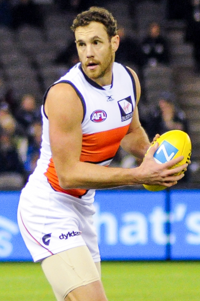 Shane Mumford during the AFL round twelve match between Carlton and Greater Western Sydney on 11 June 2017 at Etihad Stadium in Melbourne, Victoria.